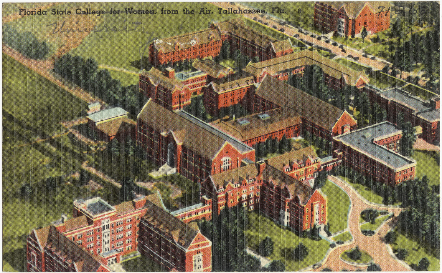 File name: 06_10_009117 Title: Florida State College for Women from the air, Tallahassee, Fla. Date issued: 1930 - 1945 (approximate) Physical description: 1 print (postcard) : linen texture, color ; 3 1/2 x 5 1/2 in. Genre: Postcards Subject: Universities & colleges Notes: Title from item. Collection: The Tichnor Brothers Collection Location: Boston Public Library, Print Department Rights: No known restrictions